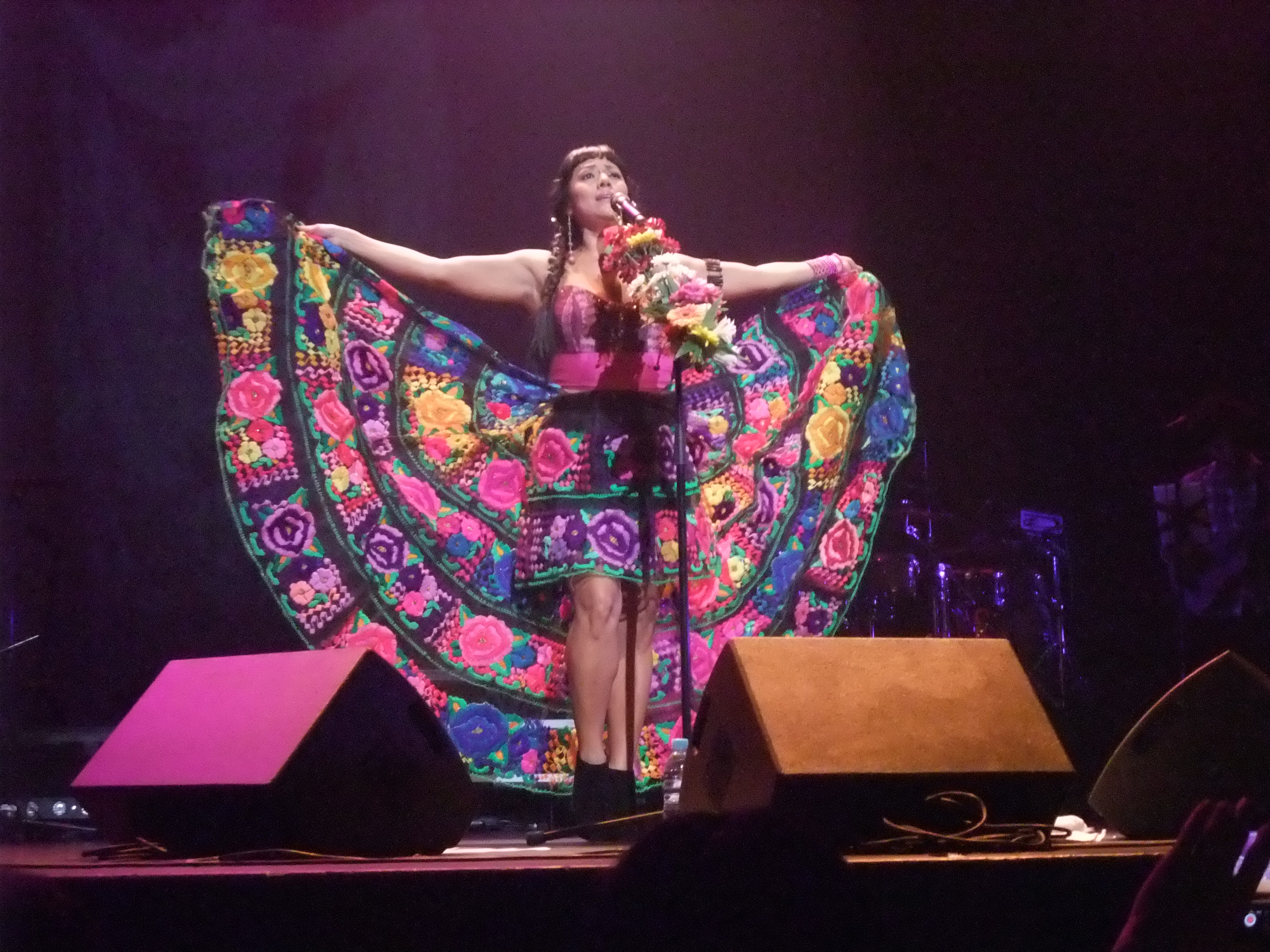 Lila Downs singing in the Maison de la Musique in Nanterre, near Paris, in France, on 22 November 2013.